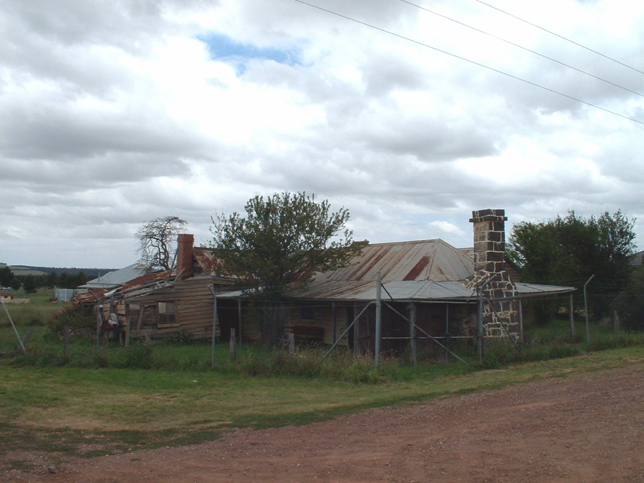 The Kelly house at Beveridge, Victoria. The house was built by John Kelly in about 1859. This was the house that bushranger Ned Kelly lived in as a young boy. His brother Dan was born here.